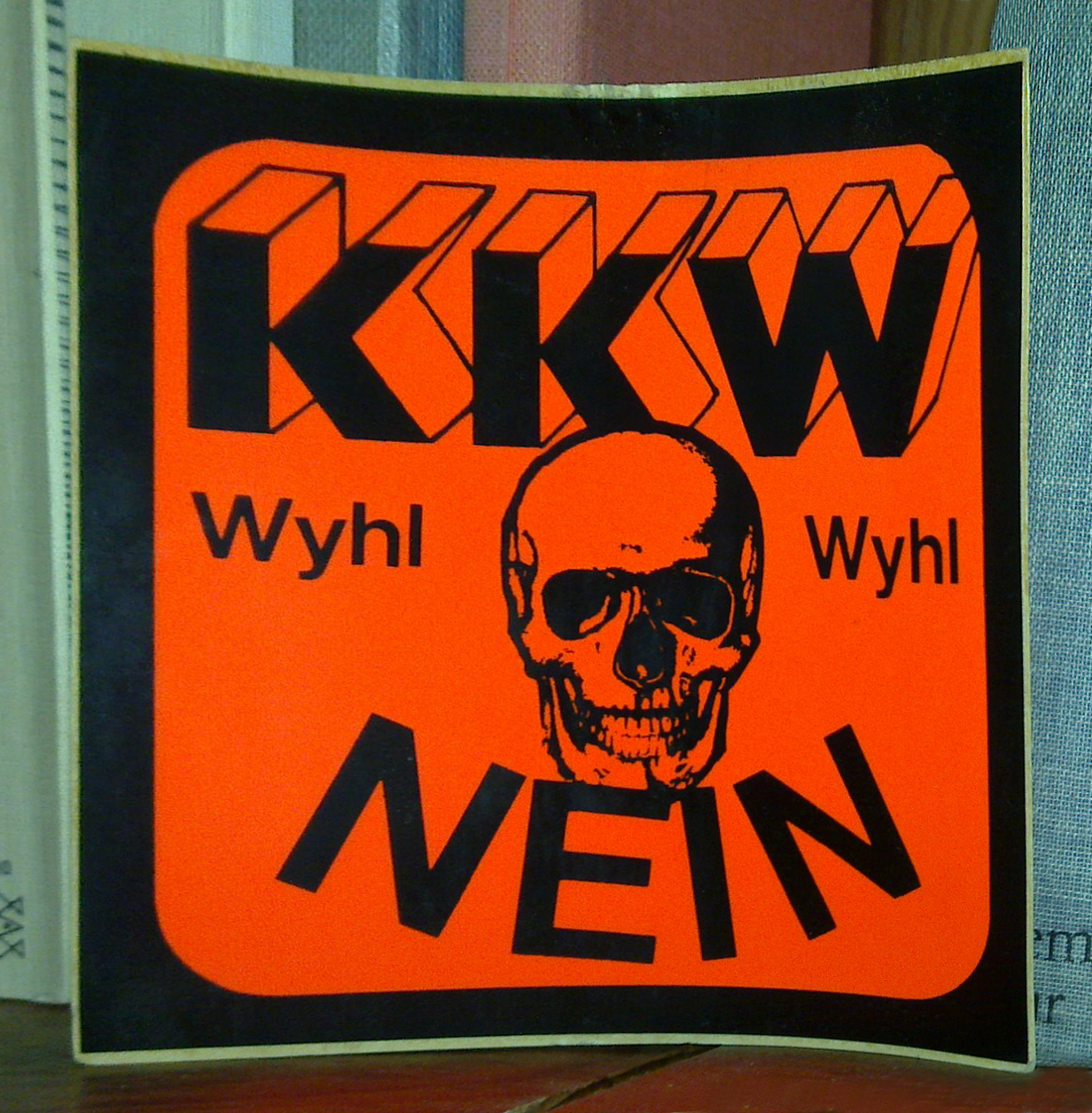 Sticker against the planned nuclear plant at Wyhl, 1975